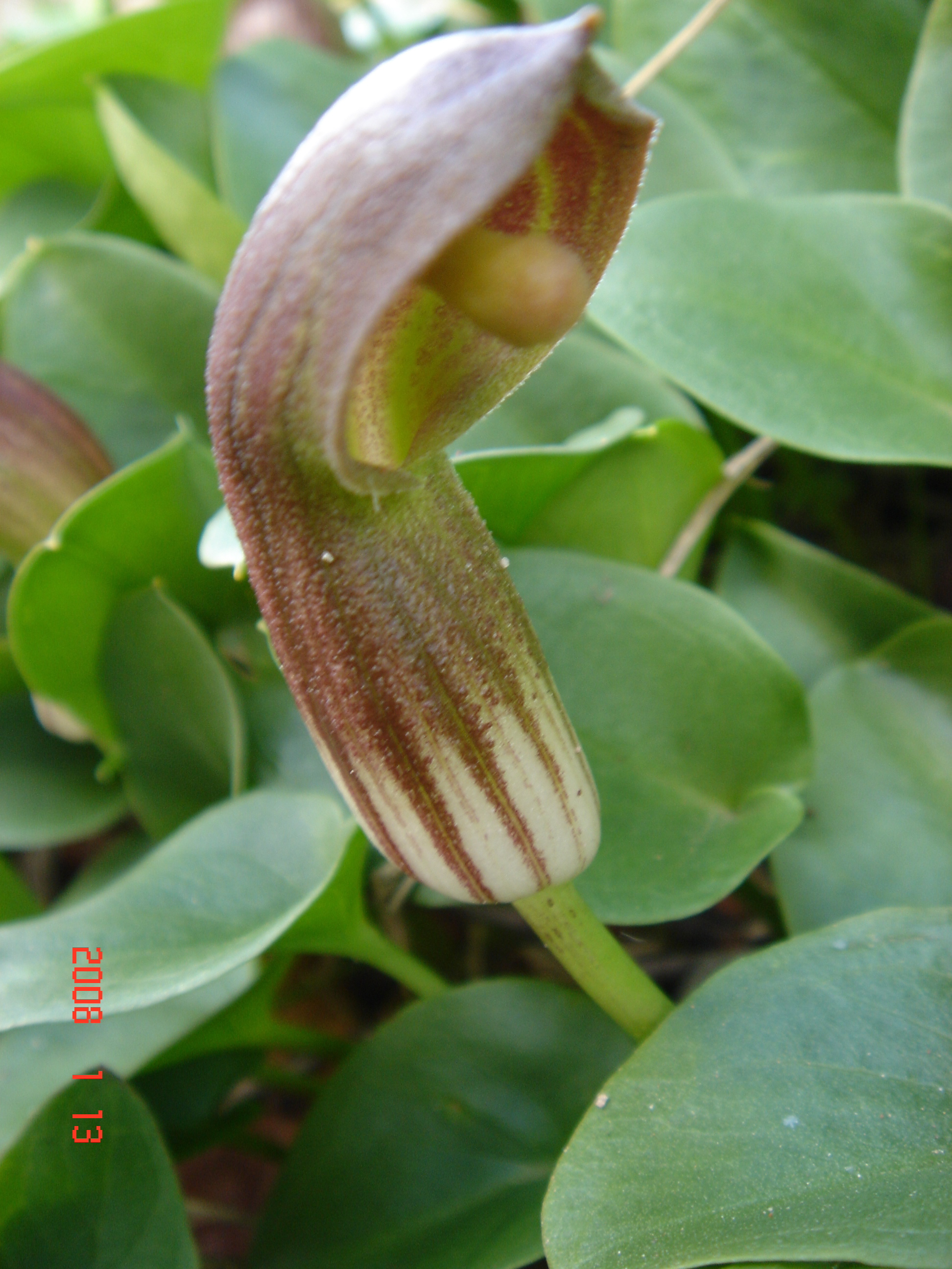 Flower of Arisarum simorrhinum, taken on Cáceres -Spain